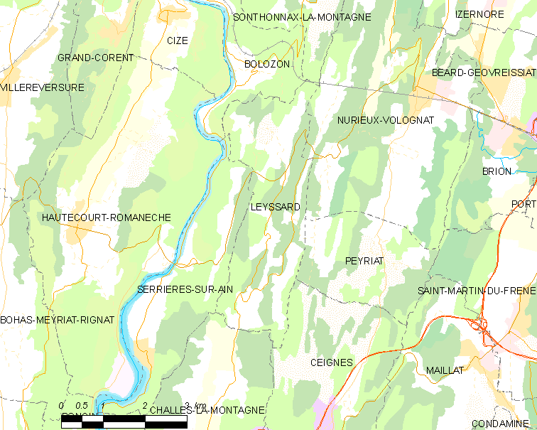 Map of French commune: Leyssard Map commune FR insee code 01214.png